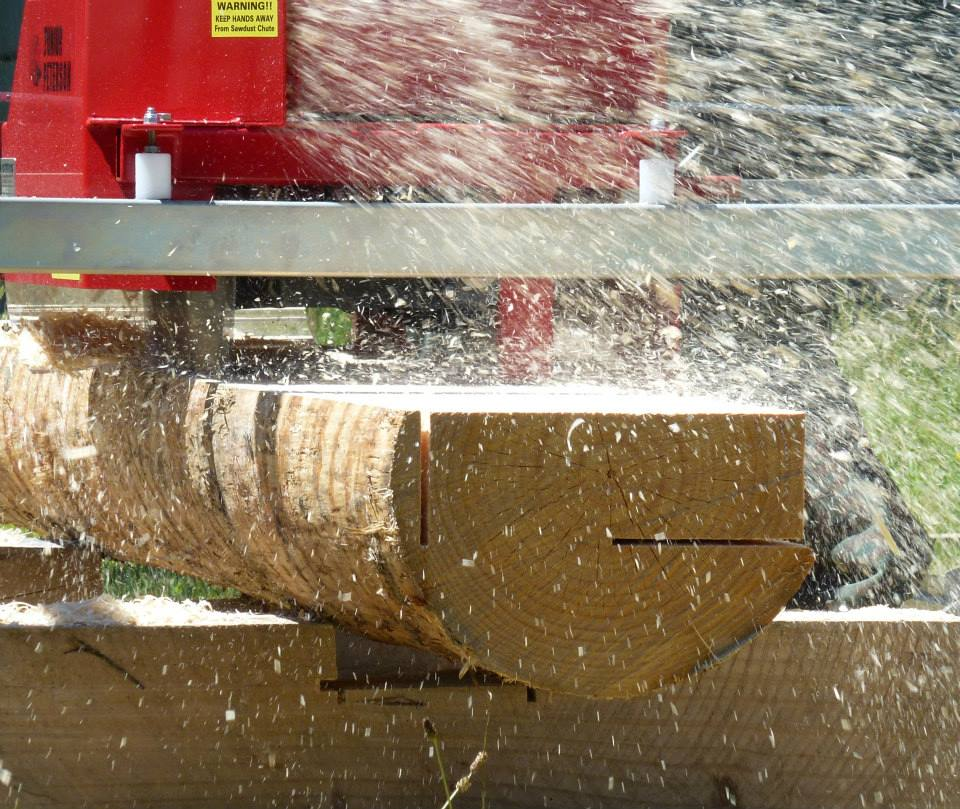 Cutting lumber with a swingblade sawmill - edging other side of the beam